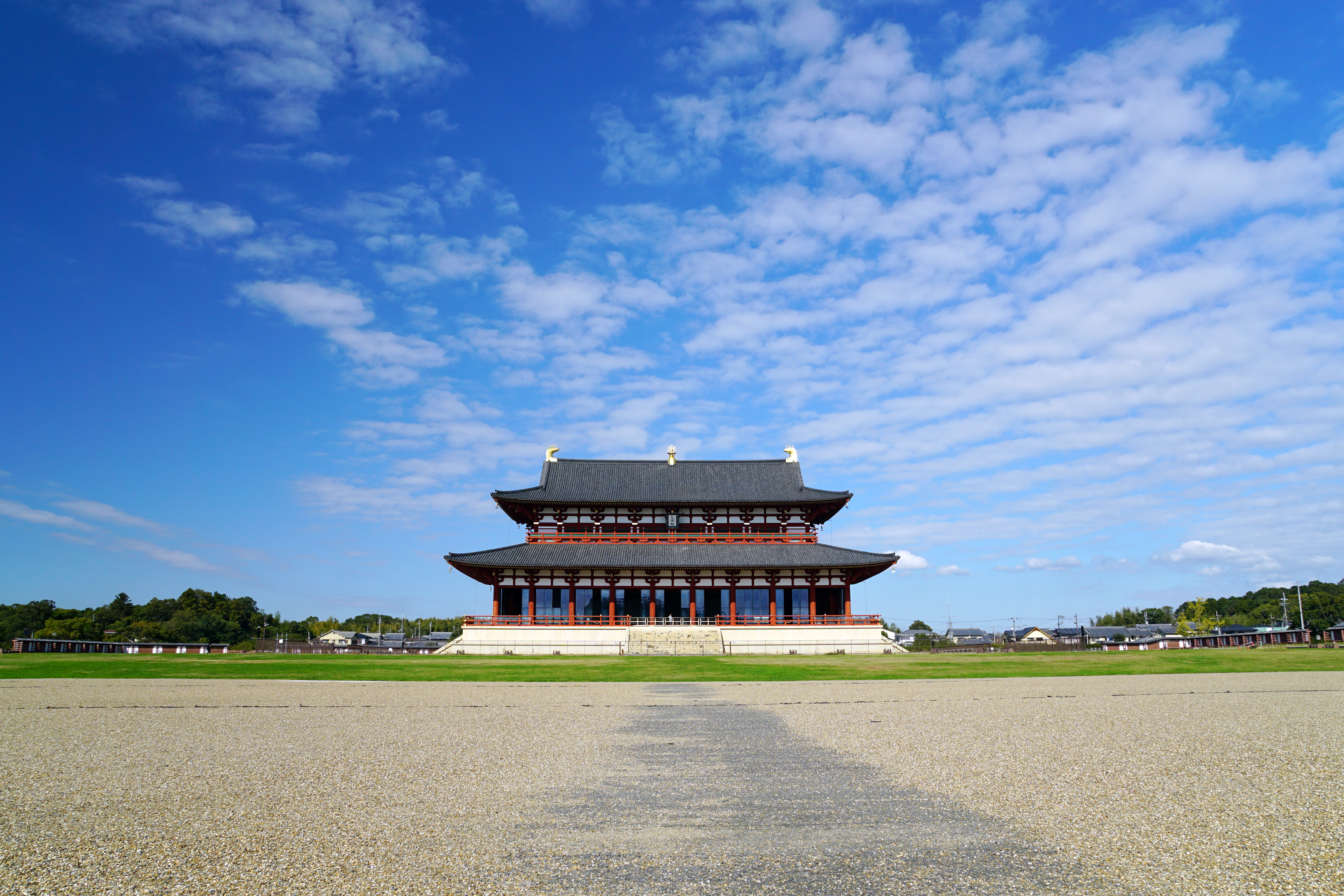 At Heijō-kyō ruins in Nara, Nara prefecture, Japan.